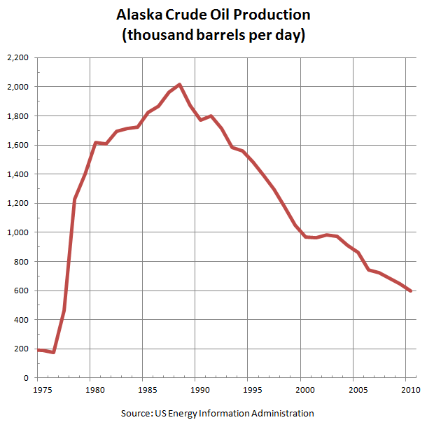 Graph of Alaska crude oil production from 1975 to 2007, created using MS Excel with data from the US Energy Information Administration